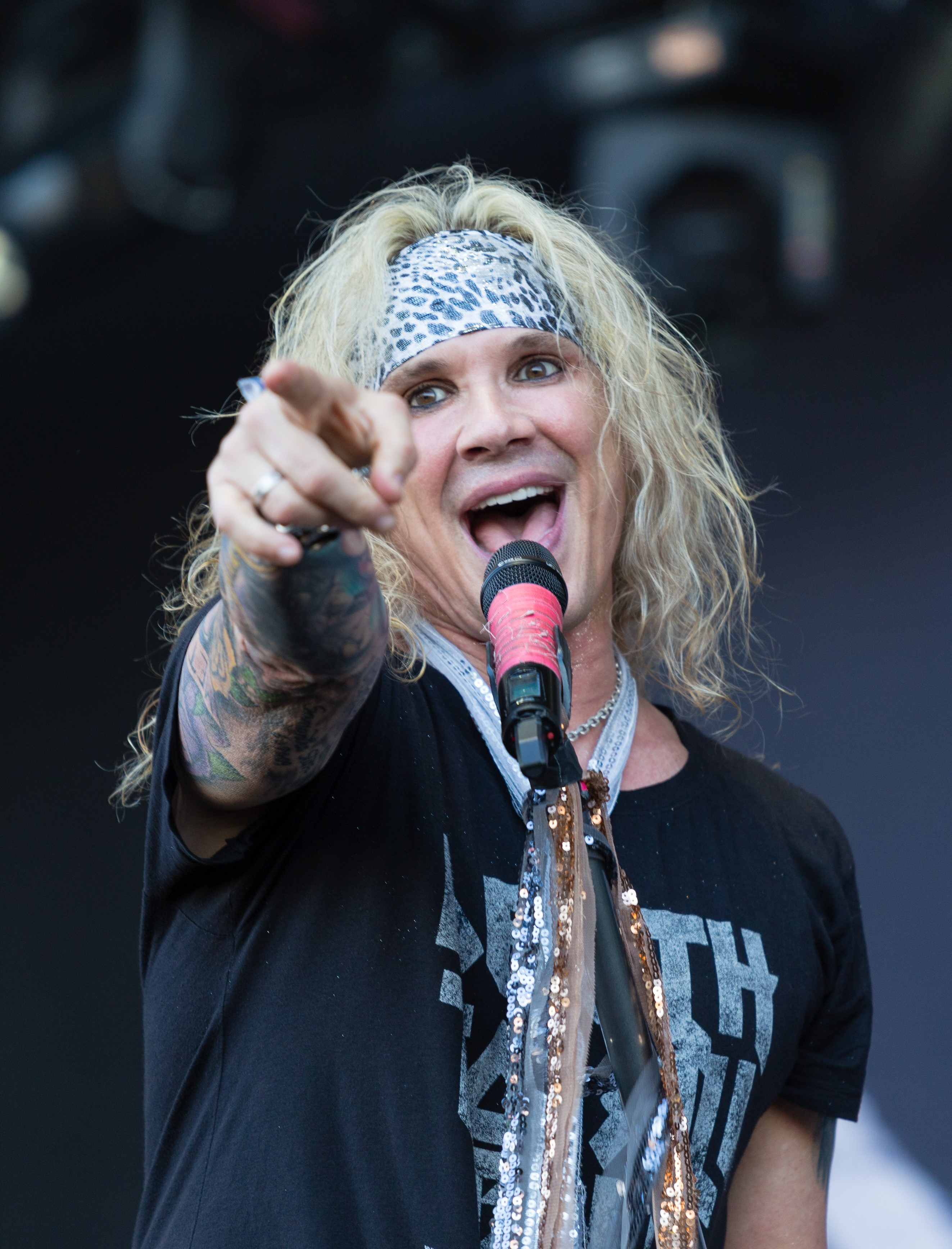 Nova Rock 2017 Michael Starr from Steel Panther from Steel Panther at the Nova Rock 2017